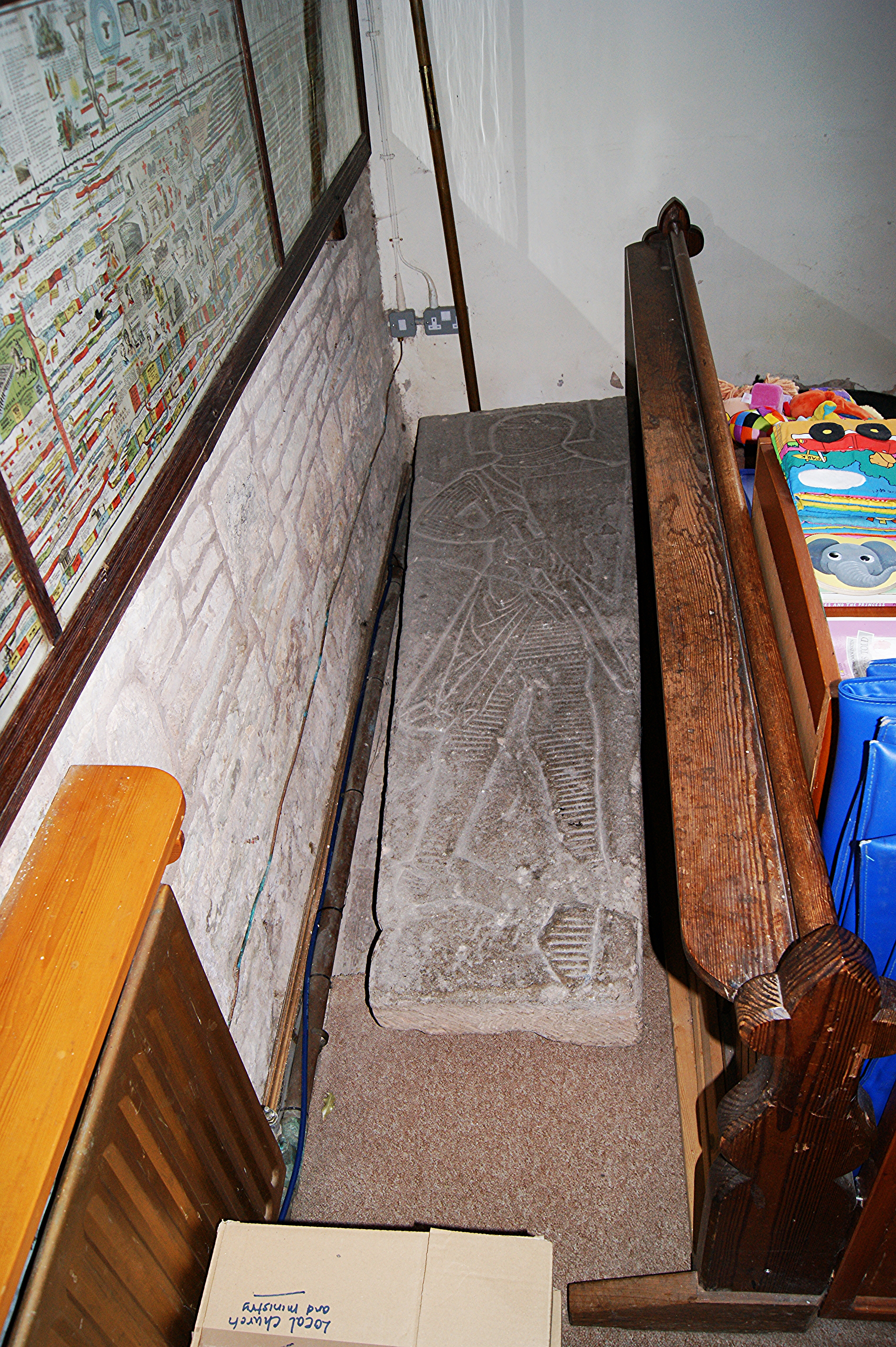 Bromyard Church (St. Peter), 22 June 2015. Pictured is 'The Avenbury Knihght', a 13th Century stone effigy originally in St. Mary's Church, Avenbury closed in 1931.